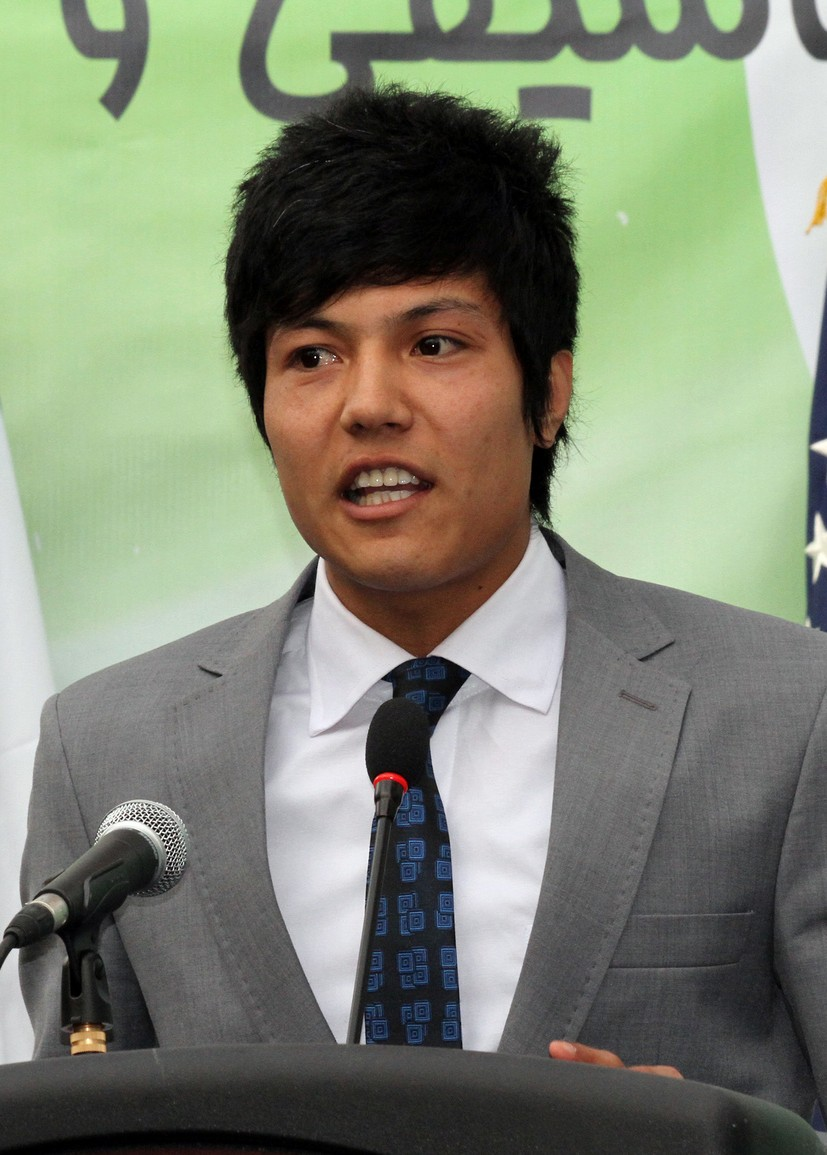 Rohullah Nikpai speaking at the Afghan Youth Festival in Kabul, Afghanistan.